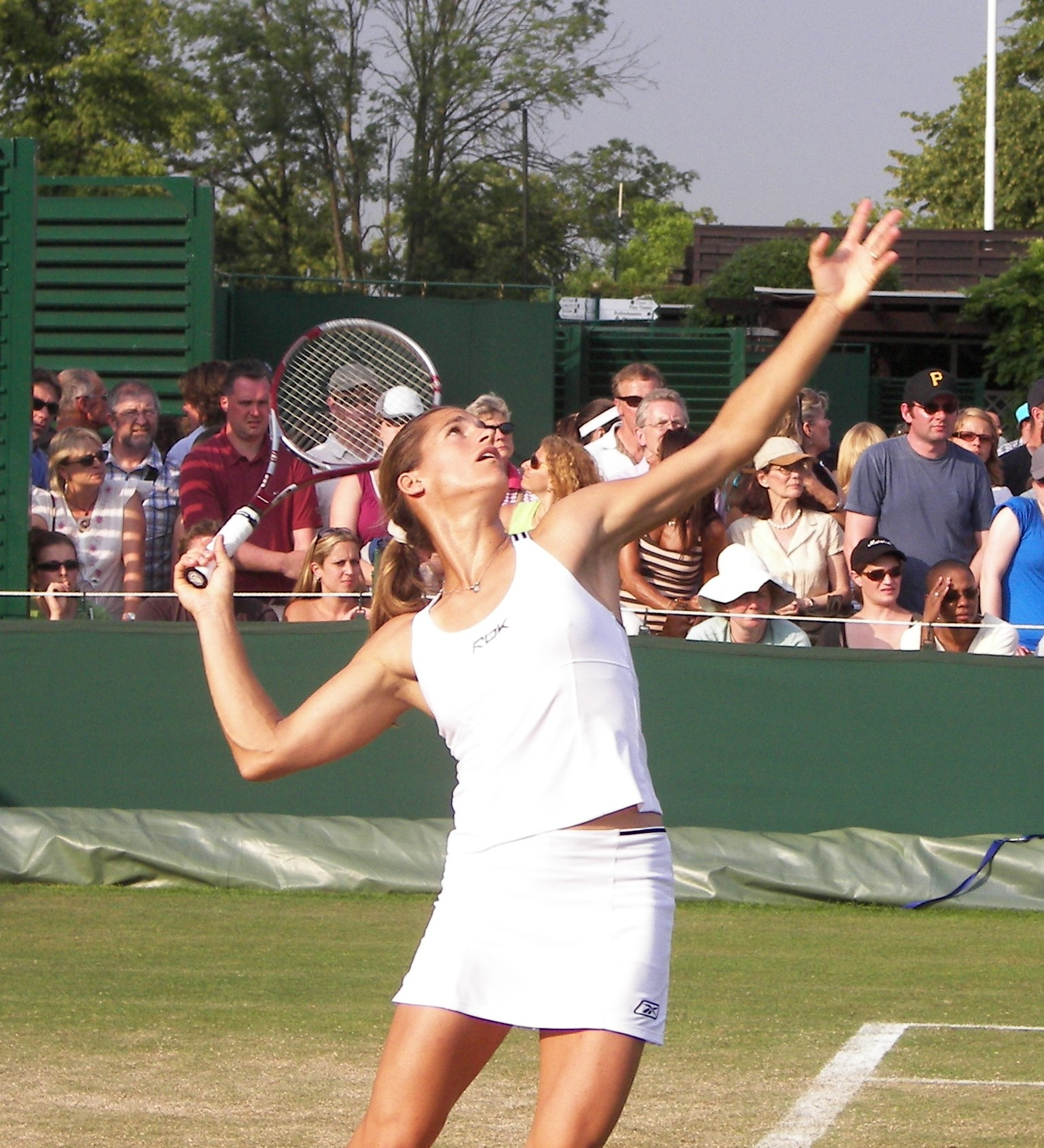 Amélie Mauresmo at Wimbledon 2006, playing ladies' doubles with Kuznetsova against Salerni and Vento-Kabchi at court 3.